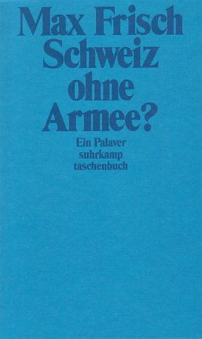 Cover of Max Frisch's late work Schweiz ohne Armee? Ein Palaver